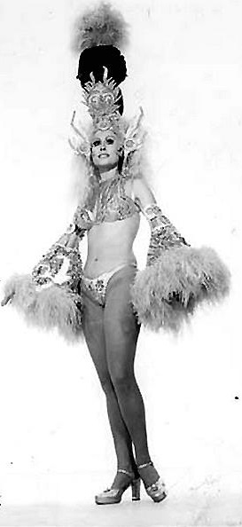 Amparito Castro- actriz y vedette